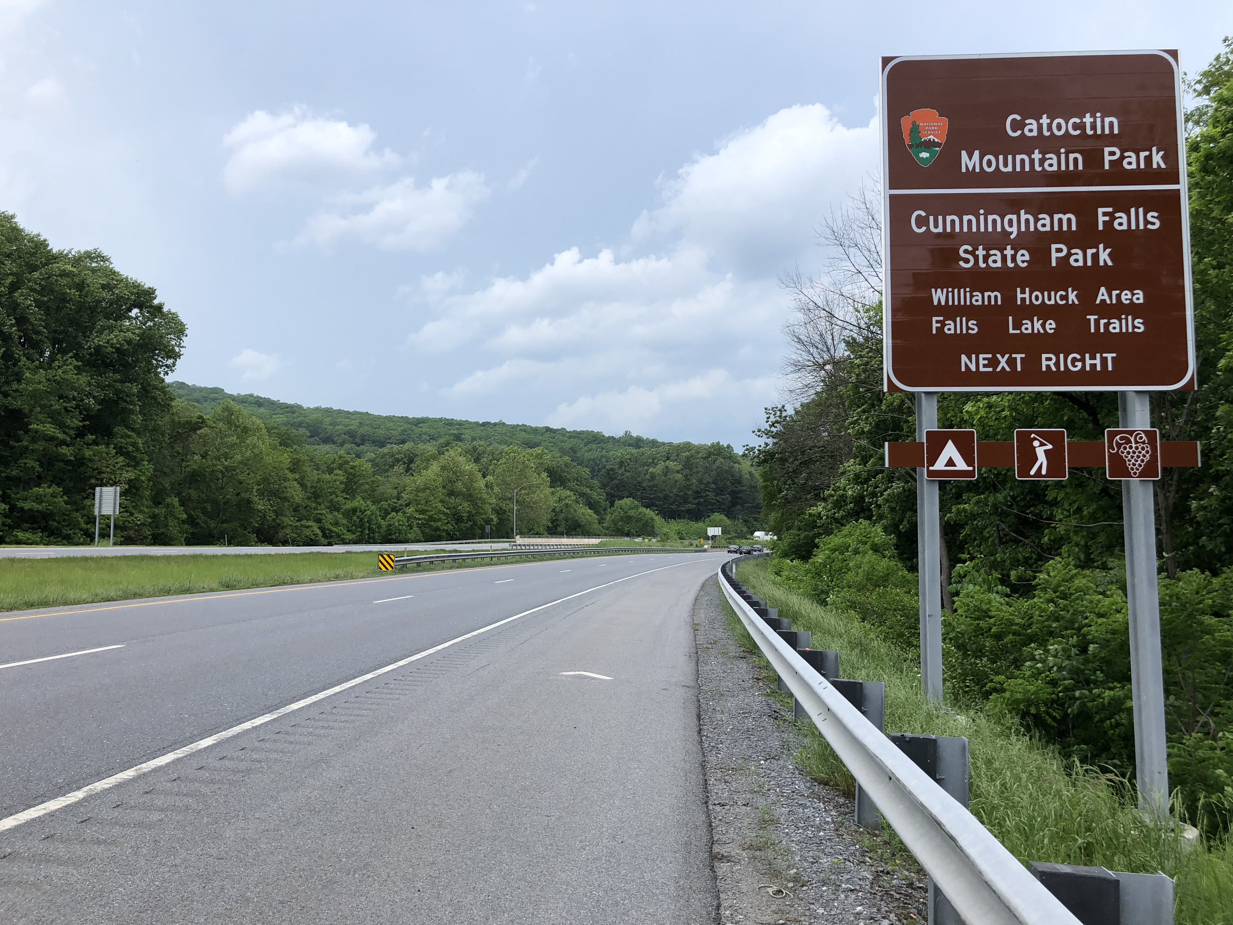 View north along U.S. Route 15 (Catoctin Mountain Highway) just south of Maryland State Route 77 (Main Street) in Thurmont, Frederick County, Maryland